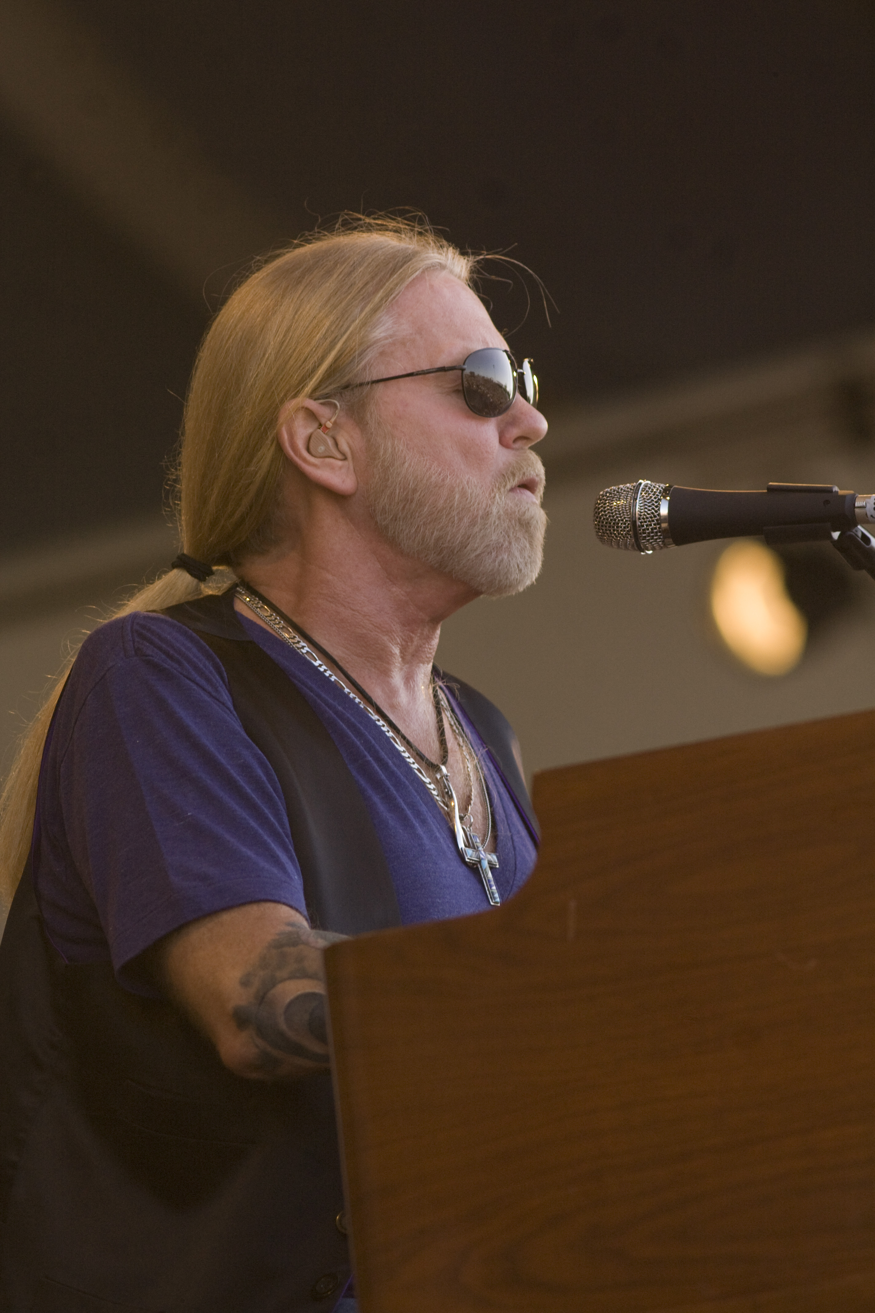 Gregg Allman performing on the Acura stage, New Orleans Jazz Fest.